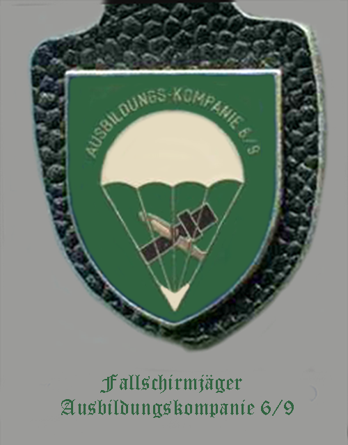 (Internal) coat of arms Fallschirmjägerausbildungskompanie 6/9 of the Bundeswehr (Armed Forces of the Federal Republic of Germany). → Remarks on naming and categorization scheme